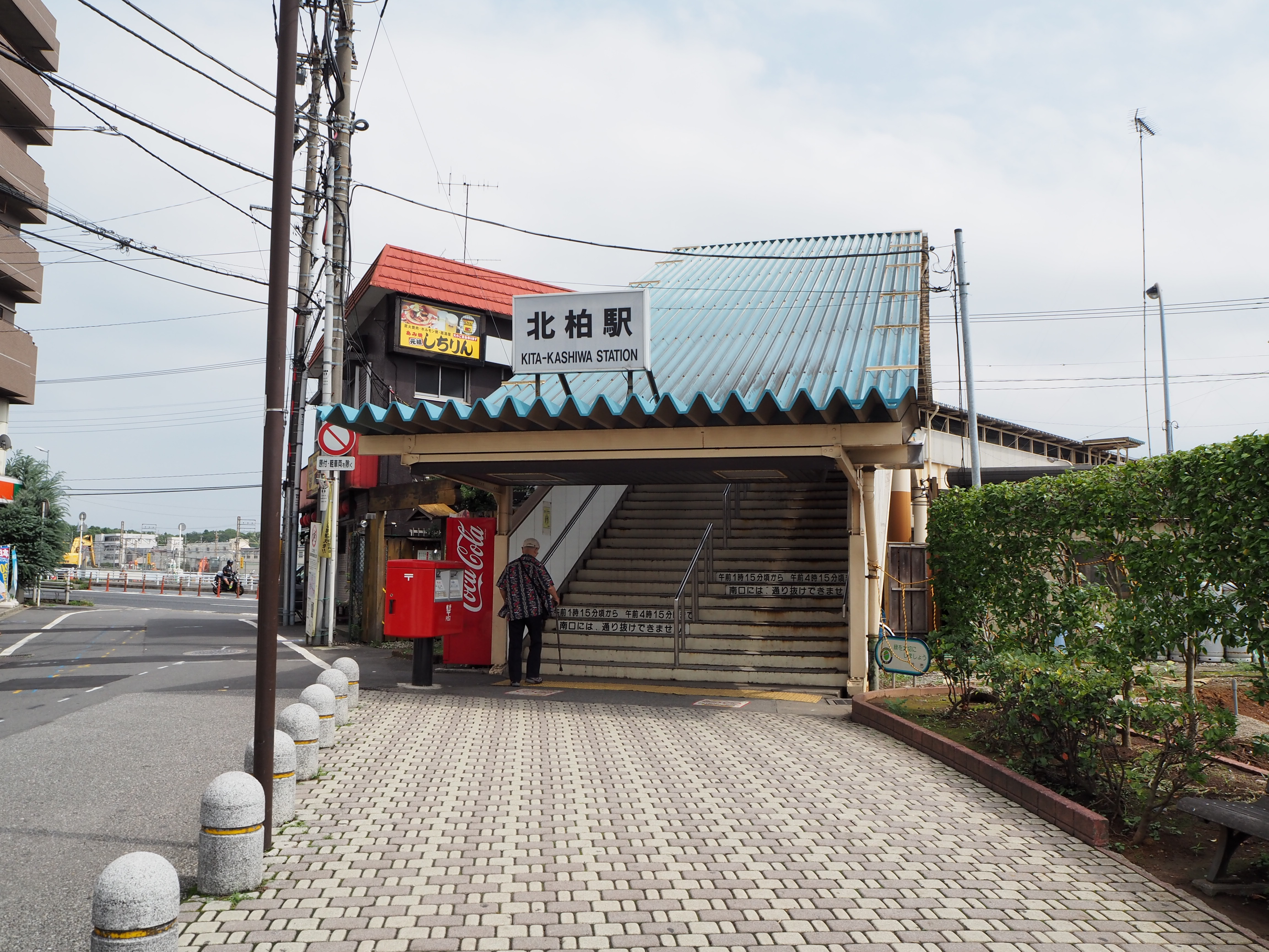 North entrance of Kita-kashiwa Station